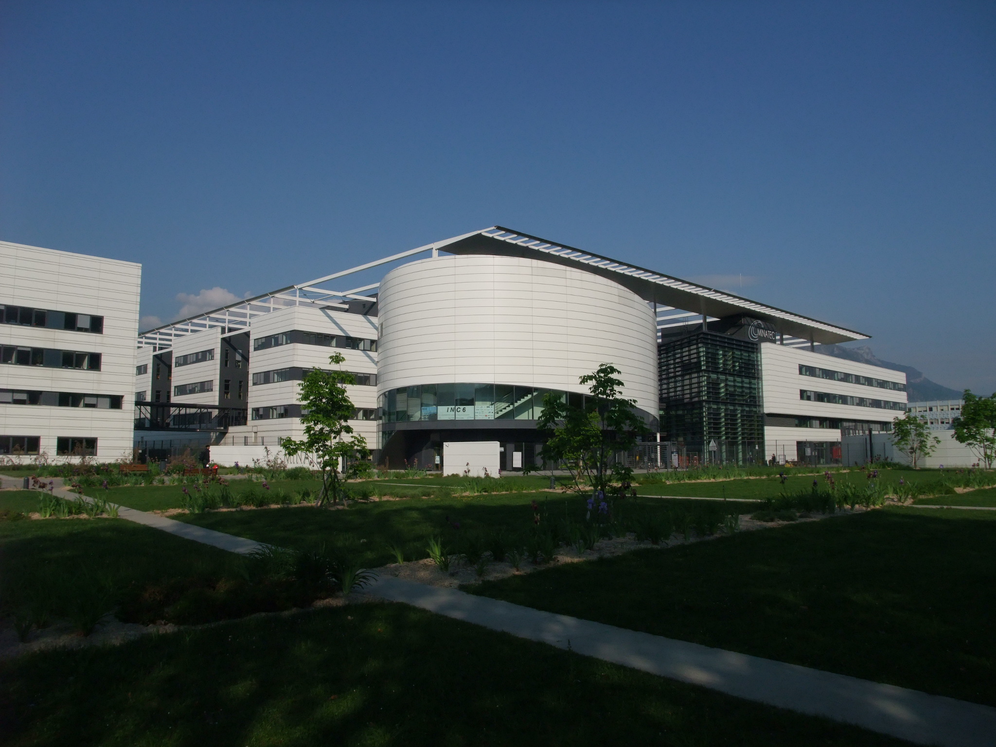 Minatec, Grenoble, France